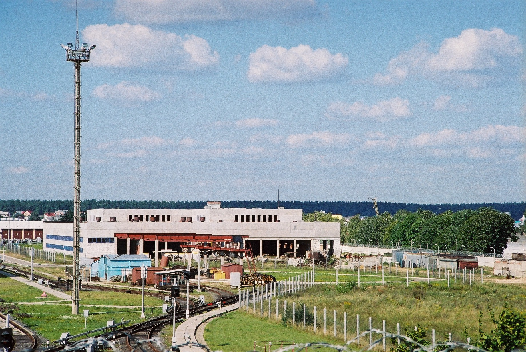 "Mogilevskoye" depot of Minsk metro (Belarus)